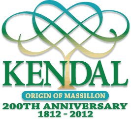 Logo for Kendal, Ohio's 200th anniversary